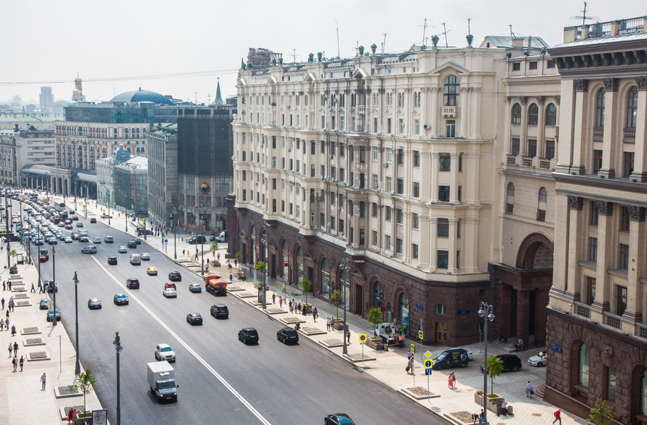 Tverskaya Street in Moscow